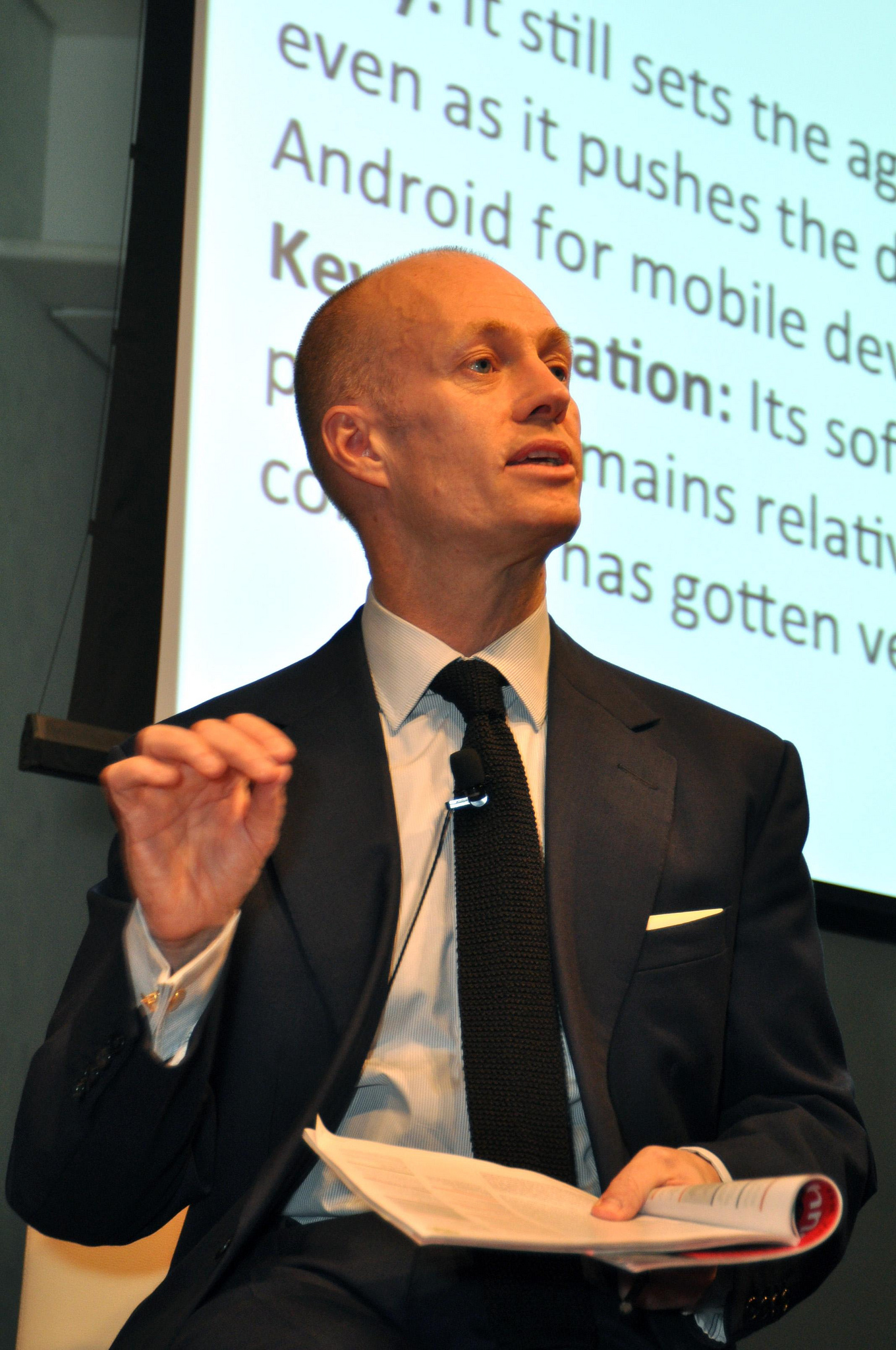 Jason Pontin, publisher and editor-in-chief of MIT Technology Review, presenting 2011's "Ten Emerging Technologies" to the MIT Enterprise Forum of New York.